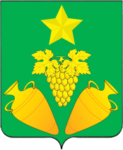 Coat of arms of Keslerovo municipality